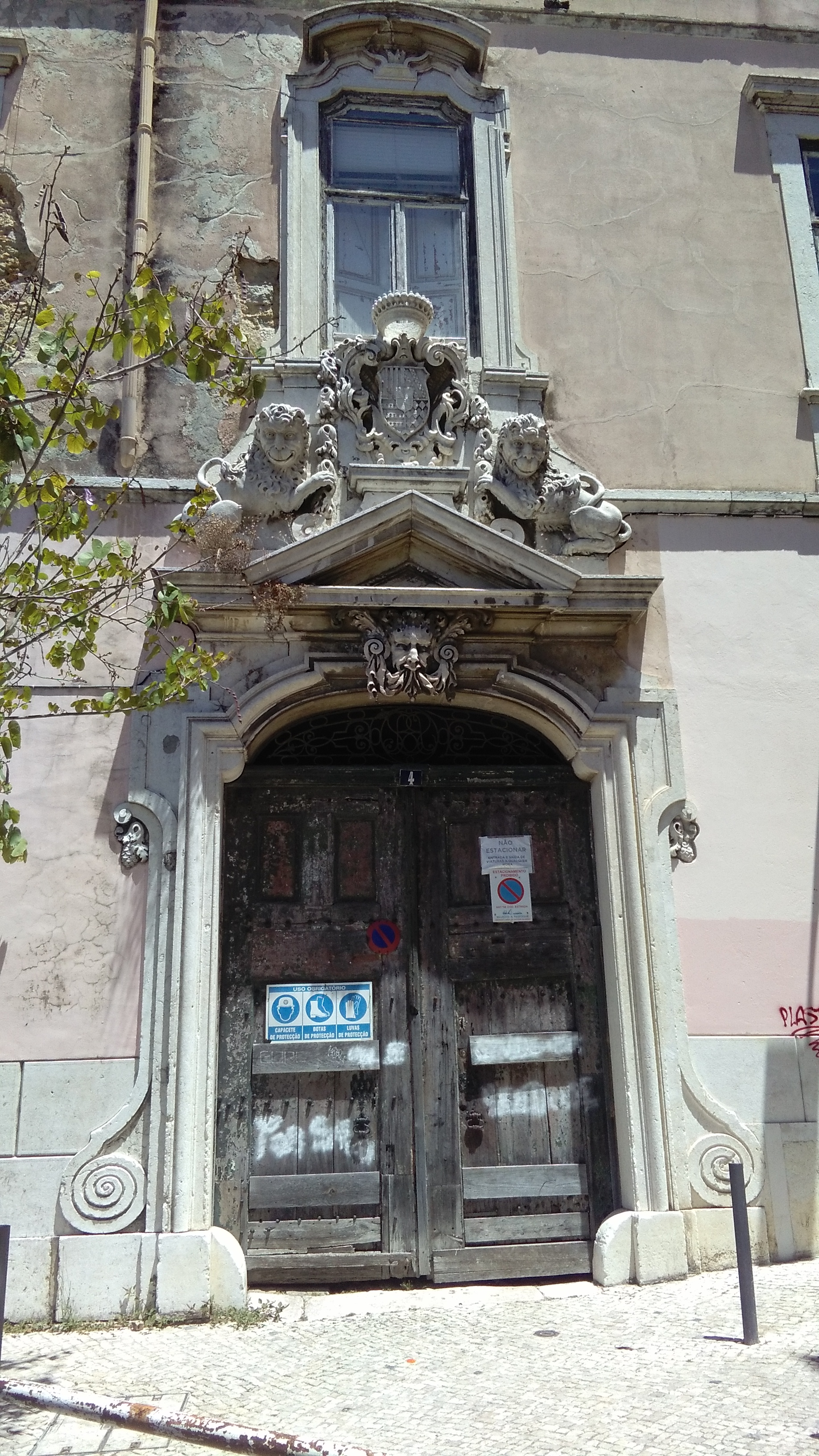 Detail of the facade of Rosa Palace in Lisbon, Portugal, showing the main portal in baroque style. It is topped by the coat of arms of the Viscounts of Vila Nova de Cerveira and Marquesses of Ponte de Lima.